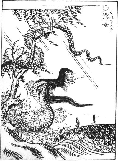 Nure-onna (濡女, a female snake-like monster who appears on the shore) from the Gazu Hyakki Yakō (画図百鬼夜行)